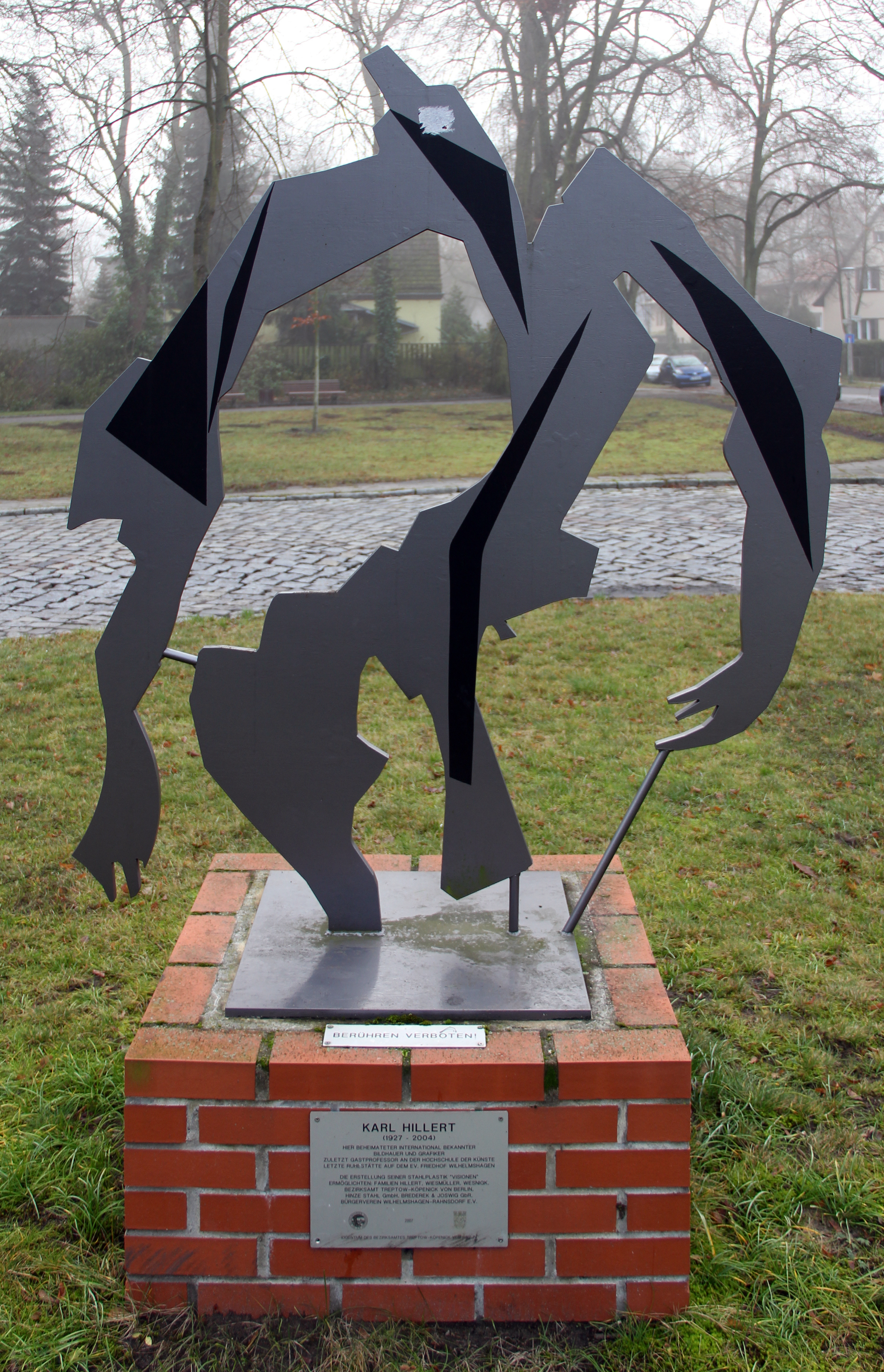 Sculpture, "Visionen" by Karl Hillert, Schönblicker Straße, Berlin-Rahnsdorf, Germany